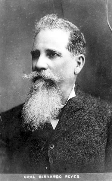 Bernardo Reyes.